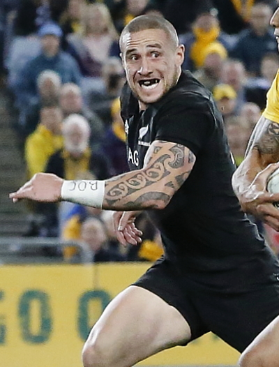 2017.08.19.21.39.10-Folau try-0002 2017 Rugby Championship, Bledisloe 1, Australia vs New Zealand, 19th August, ANZ Stadium, Sydney